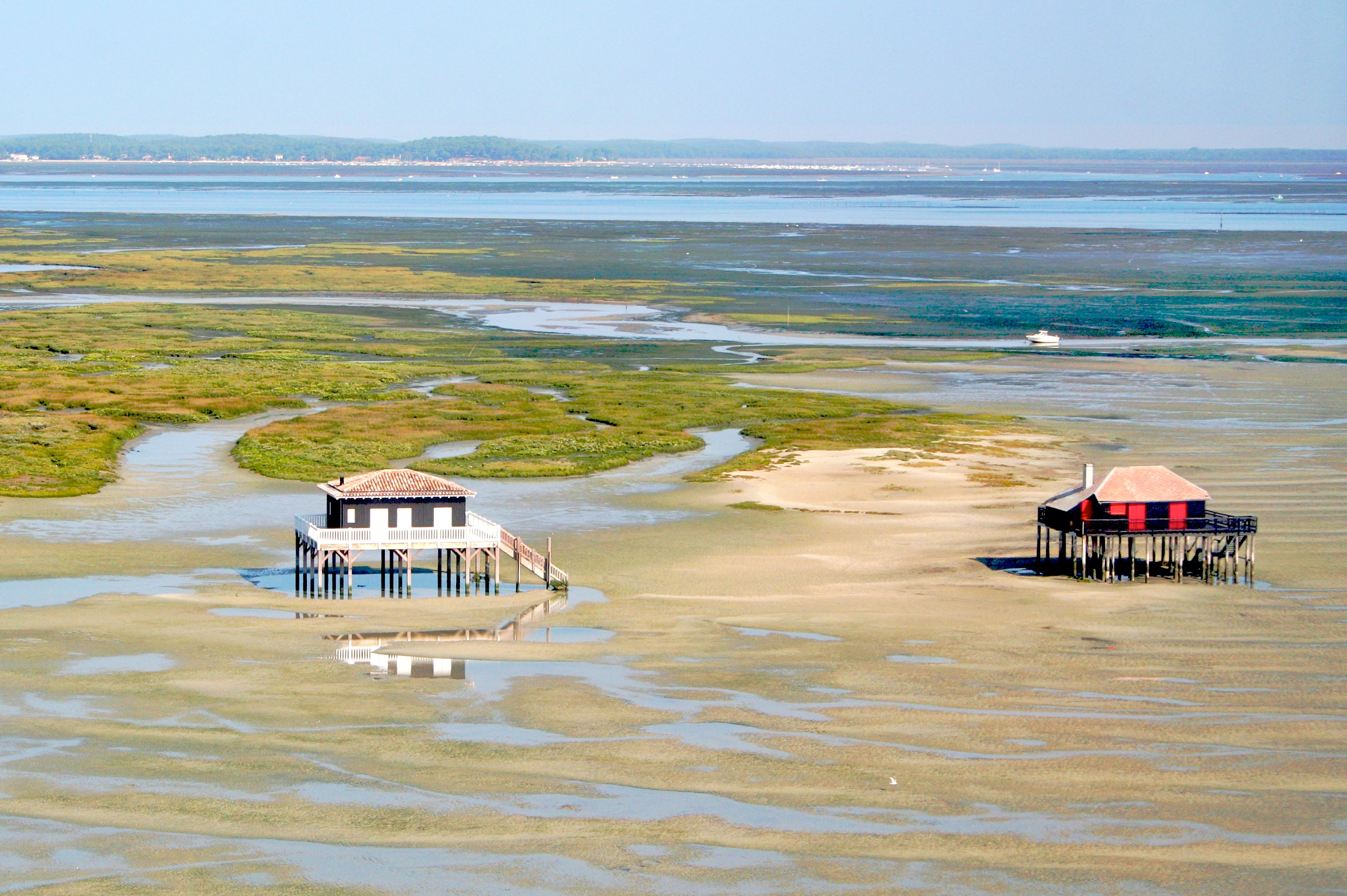 Cabanes tchanquées near Arcachon (France)